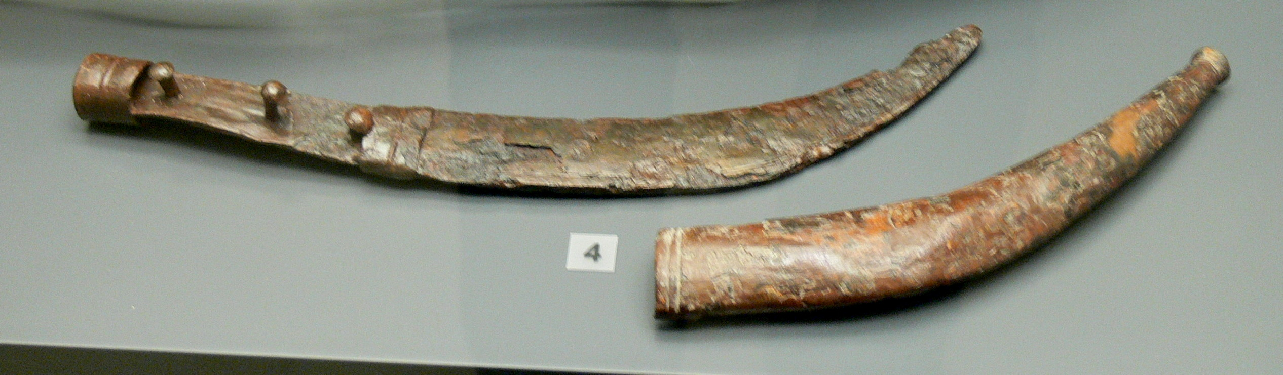 Celtic Museum Manching ( Bavaria ). Exhibition "Rome´s unknown borders": Iron sica ( 1st century BC ) from a Dacian warrior grave in Cugir.